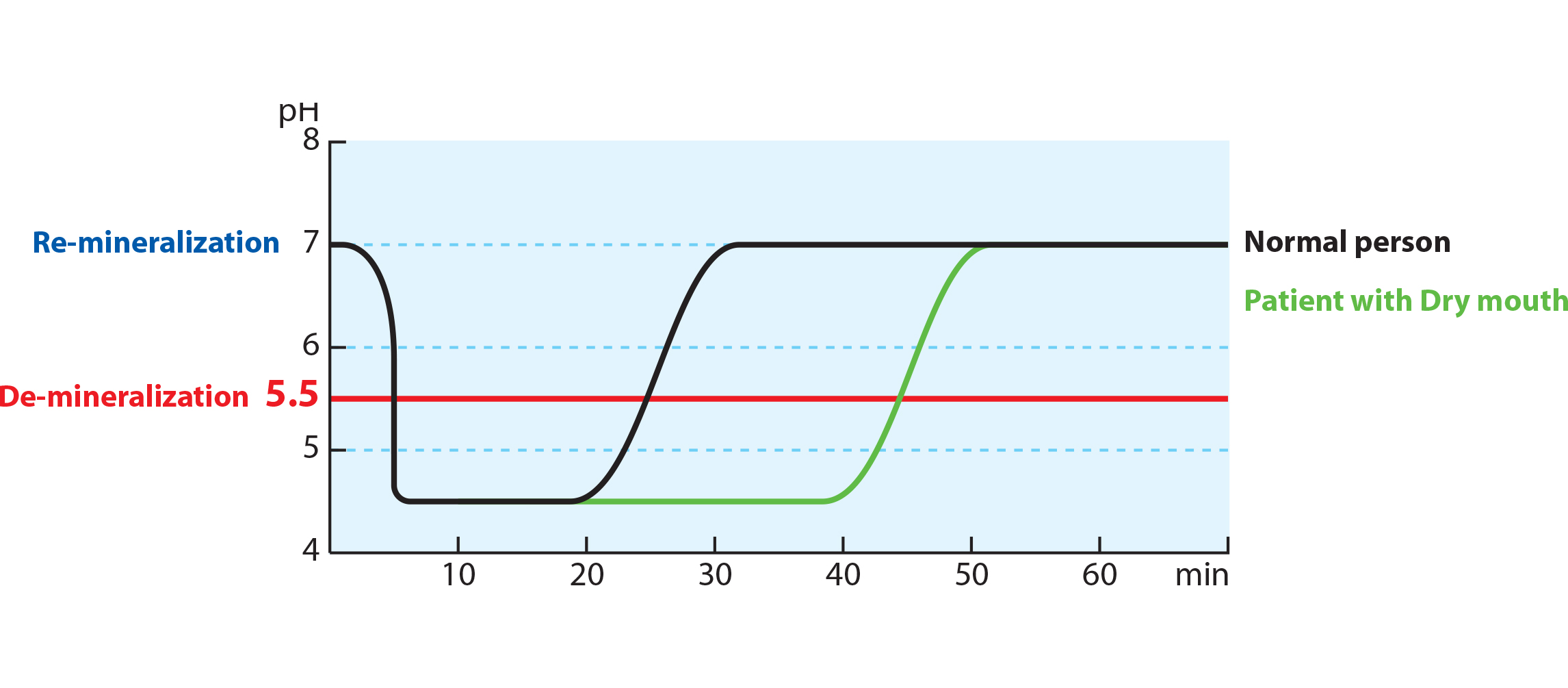 After consuming food high in carbohydrates, the mouth enters an acidic environment within 5 minutes. Under normal conditions of salivation, the acid will be neutralized in about 20 minutes. People with dry mouth often will take twice as long to neutralize mouth acid